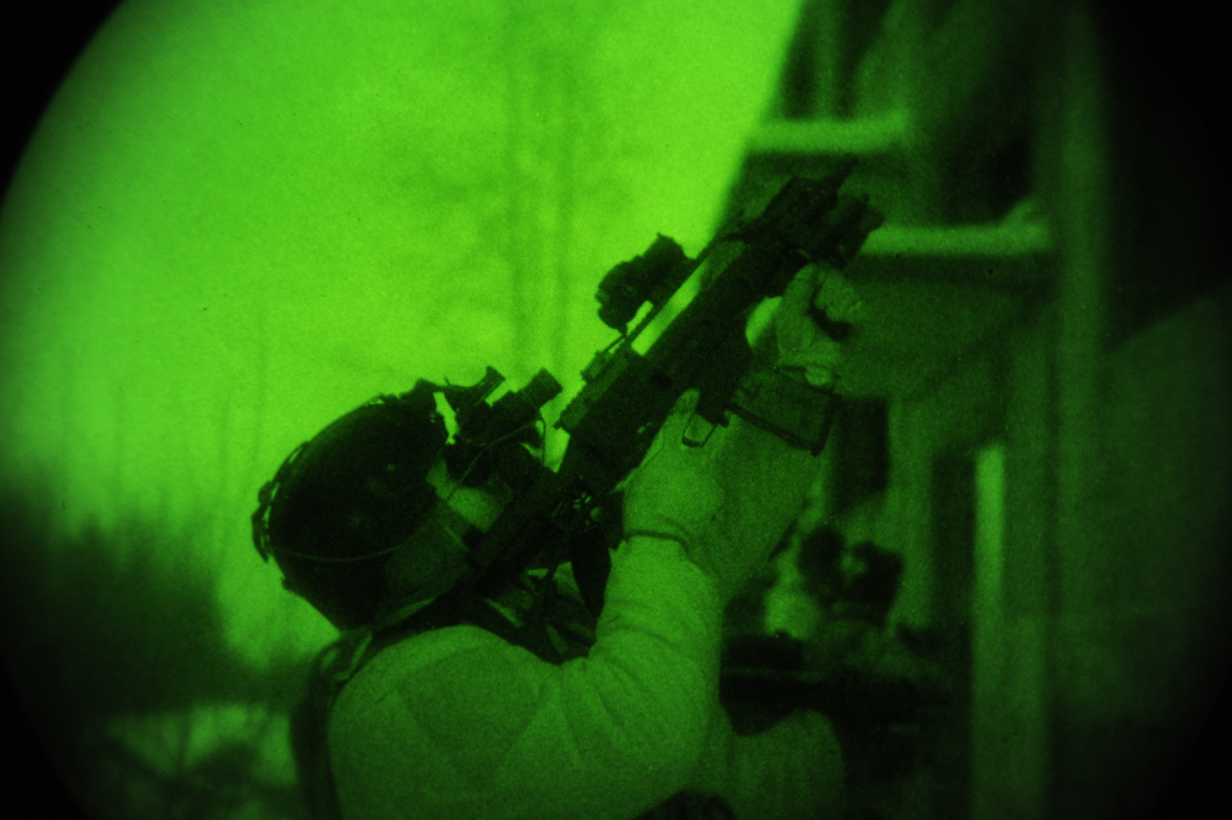 A Latvian Special Operation Forces (SOF) soldier covers a third floor window during a simulated raid on a target house using simulation rounds for a demonstration in Rukla, Lithuania, Jan. 26, 2010. Lithuanian and Latvian SOF soldiers are participating in joint combined exercise training with U.S. Sailors from Naval Special Warfare Unit 2.